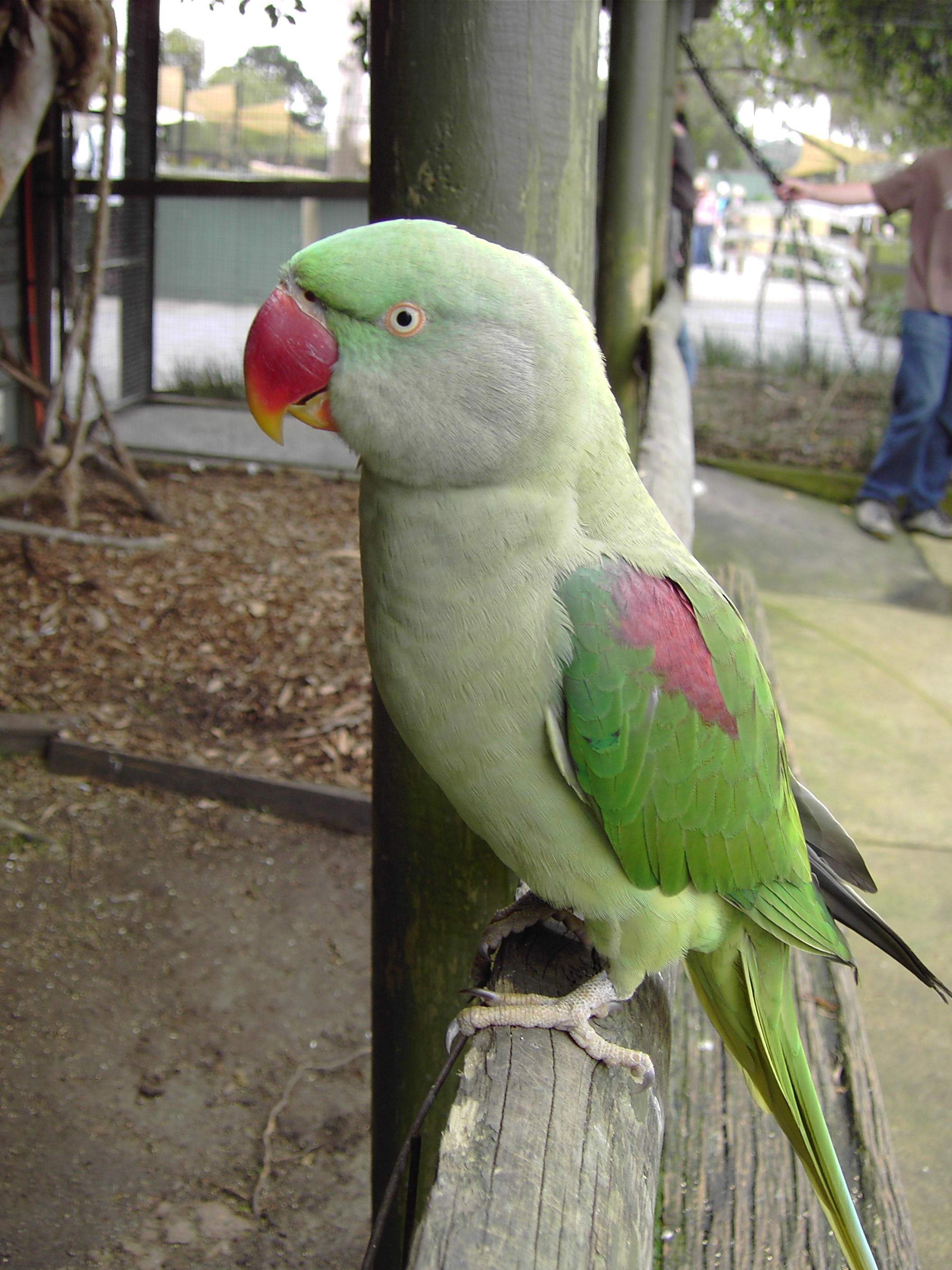 A Alexandrine Parakeet (Psittacula eupatria) at Symbio wildlife park, Stanwell Tops, NSW, AustraliaGreen Parrot